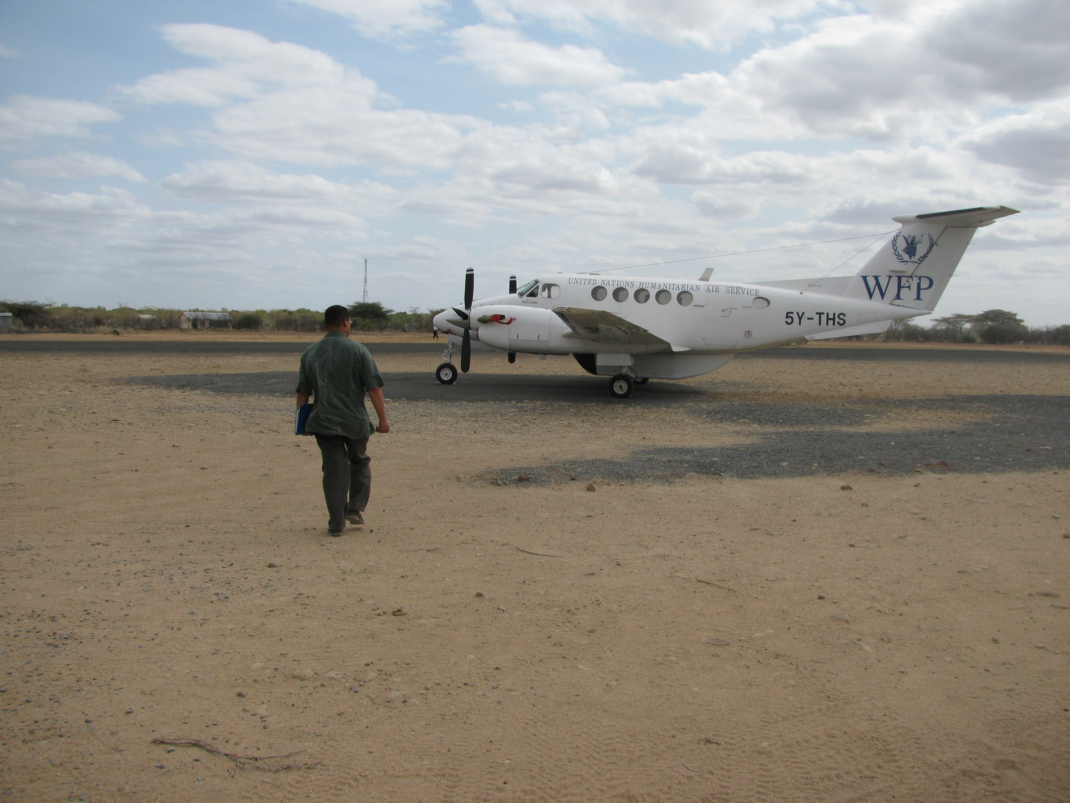 Dadaab airstrip in Kenya.